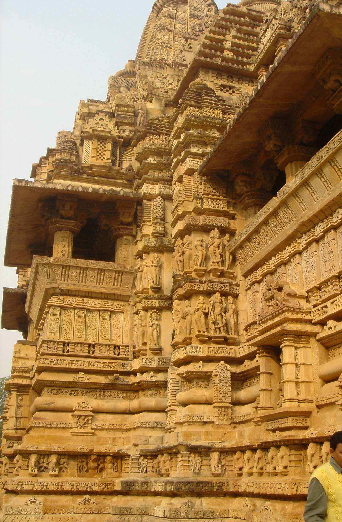 A view of one of the many temples.